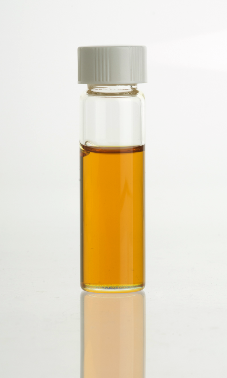 Glass vial containing Cistus Essential Oil